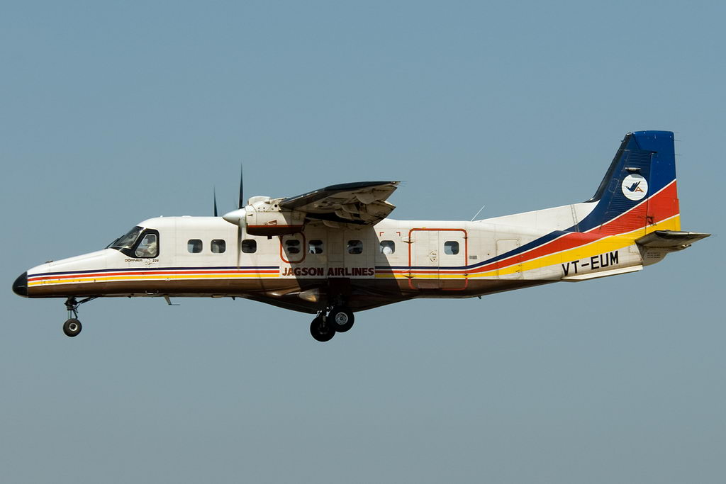 VT-EUM Dornier Do-228 Jagson Airlines: Contrary to many Dornier 228s you see in India this one has been manufactured in Germany.